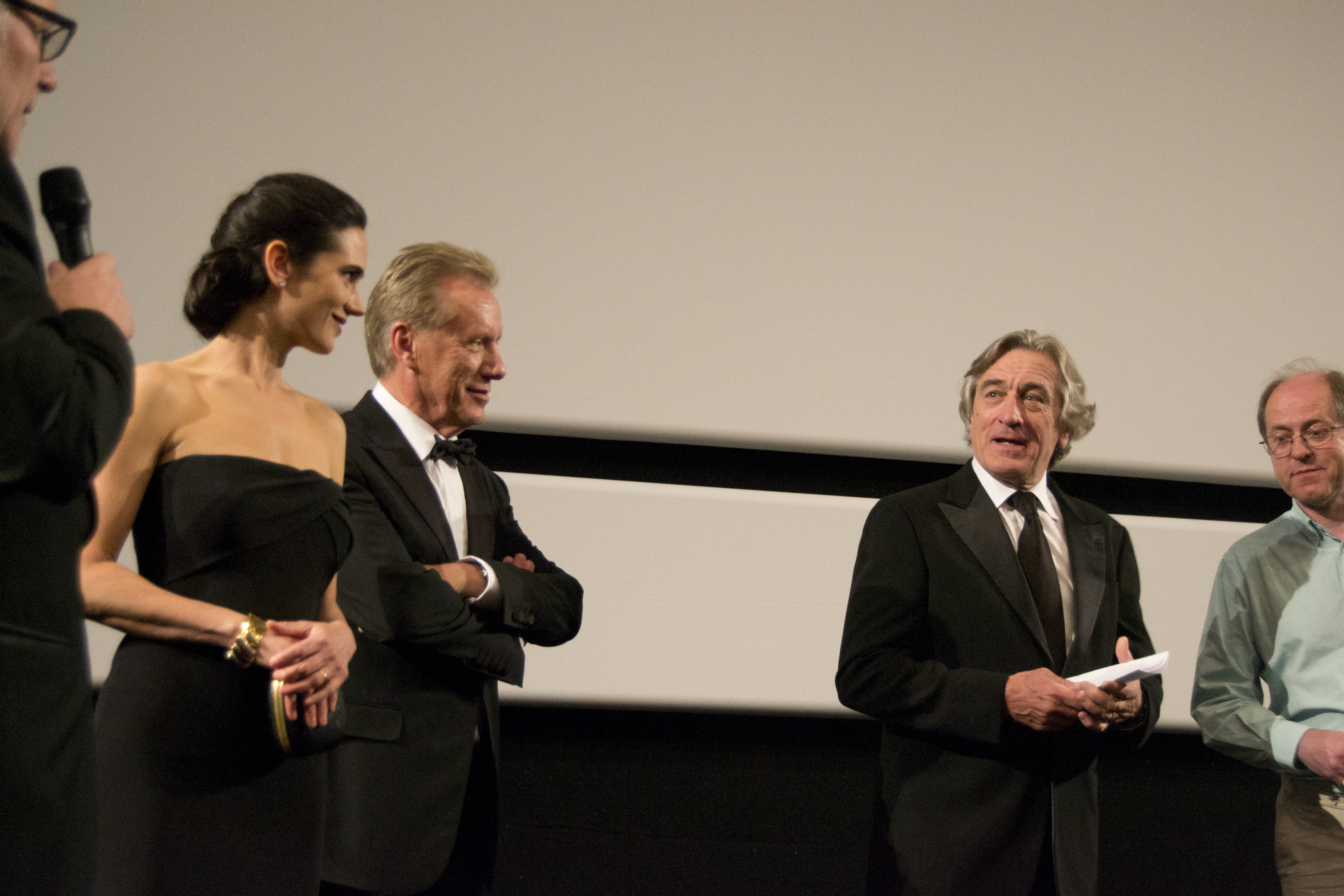 Robert De Niro, Jennifer Connelly, and James Woods in Cannes (Salle du Soixantième), for the presentation of Once Upon a Time in America (Sergio Leone, 1984) version.